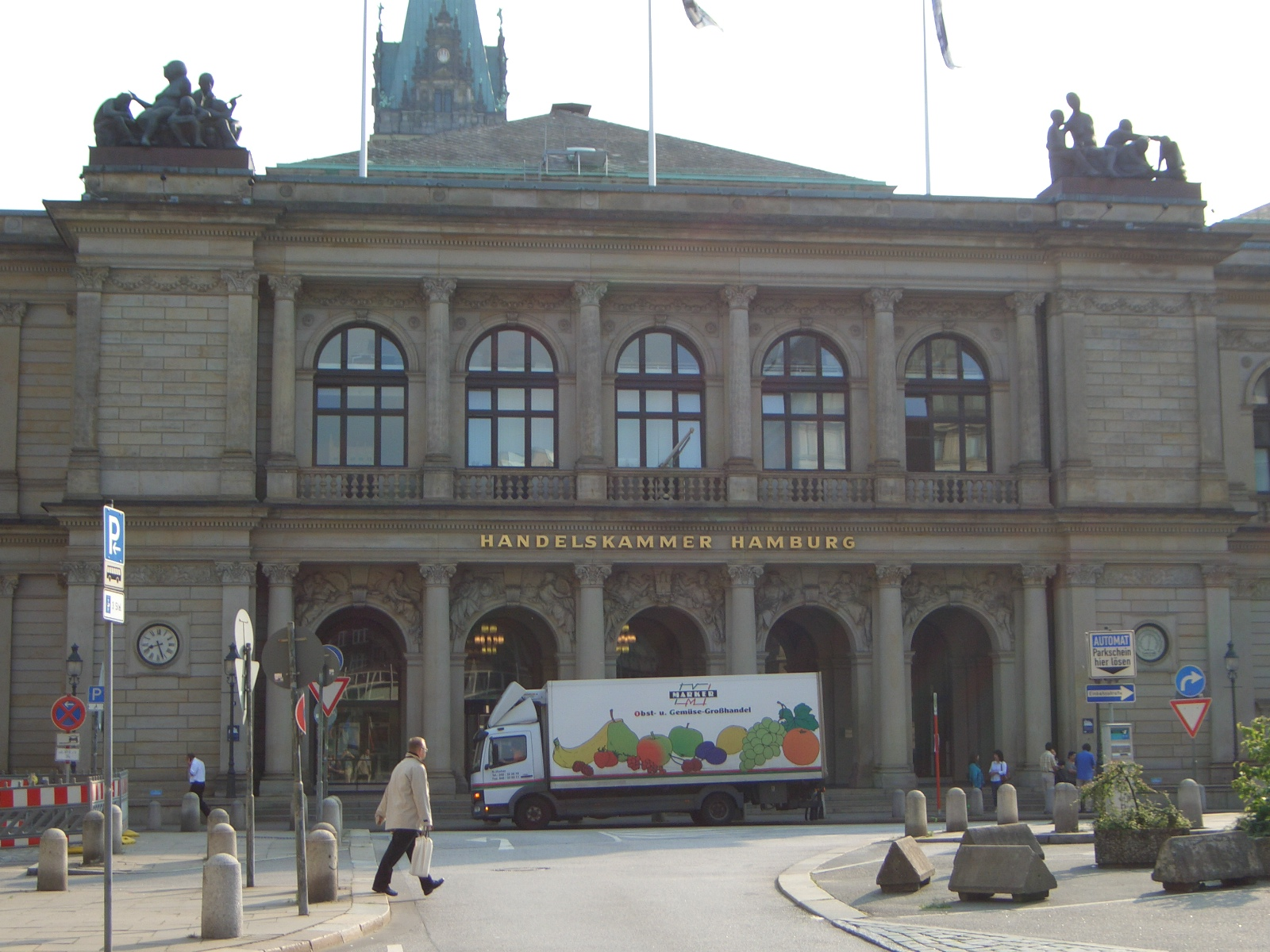 Chamber of commerce of Hamburg This is a photograph of an architectural monument.